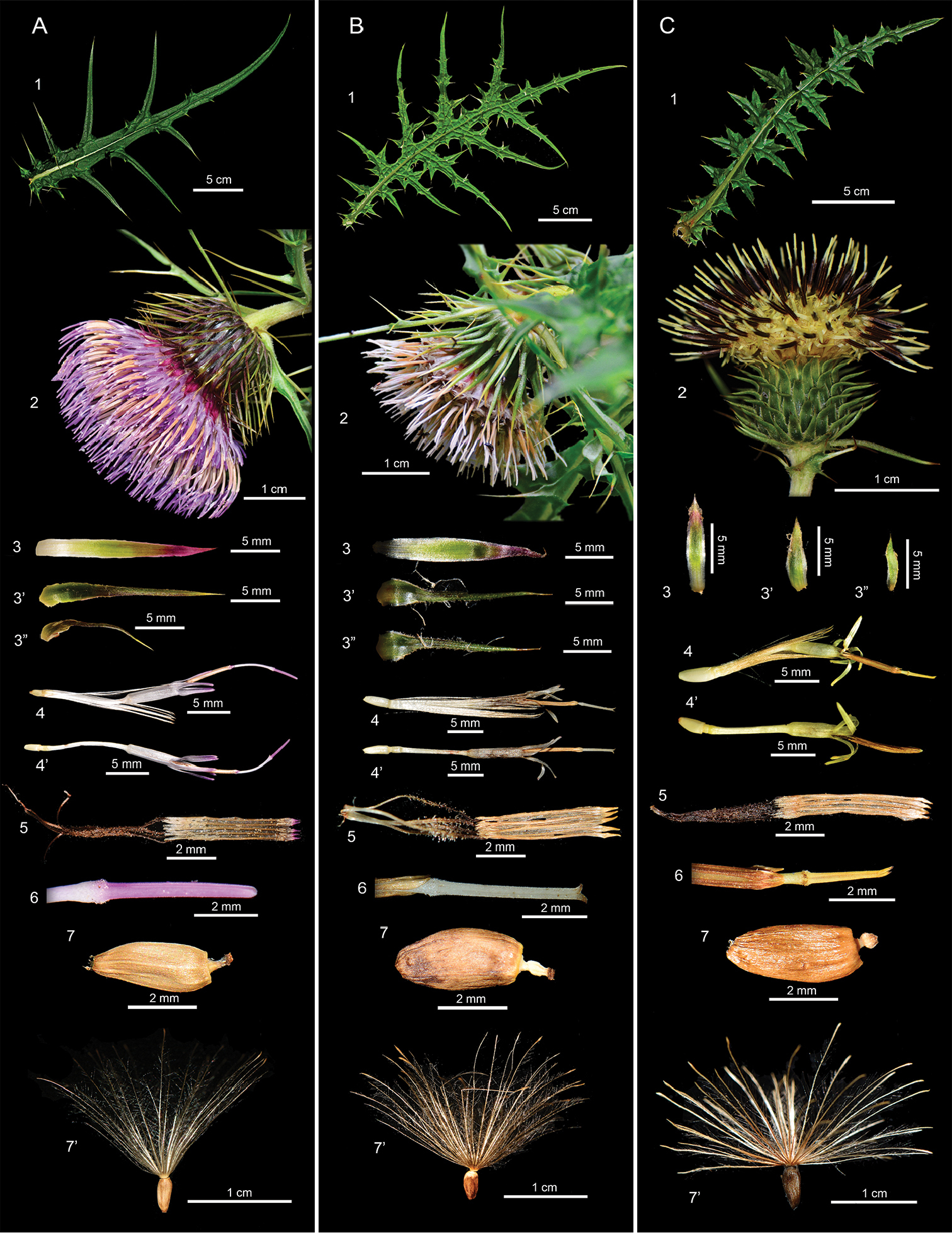 Comparison of the morphological characters amongst the species of sect. Onotrophe in Taiwan. A Y.H.Tseng & C.Y.Chang B Hayata C Kitam.: 1 leaf 2 capitula 3 3’ middle phyllary 3” outer phyllary 4 floret 4’ floret (pappus removed) 5 synantherous 6 style branches 7 achene 7’ achene with pappus.